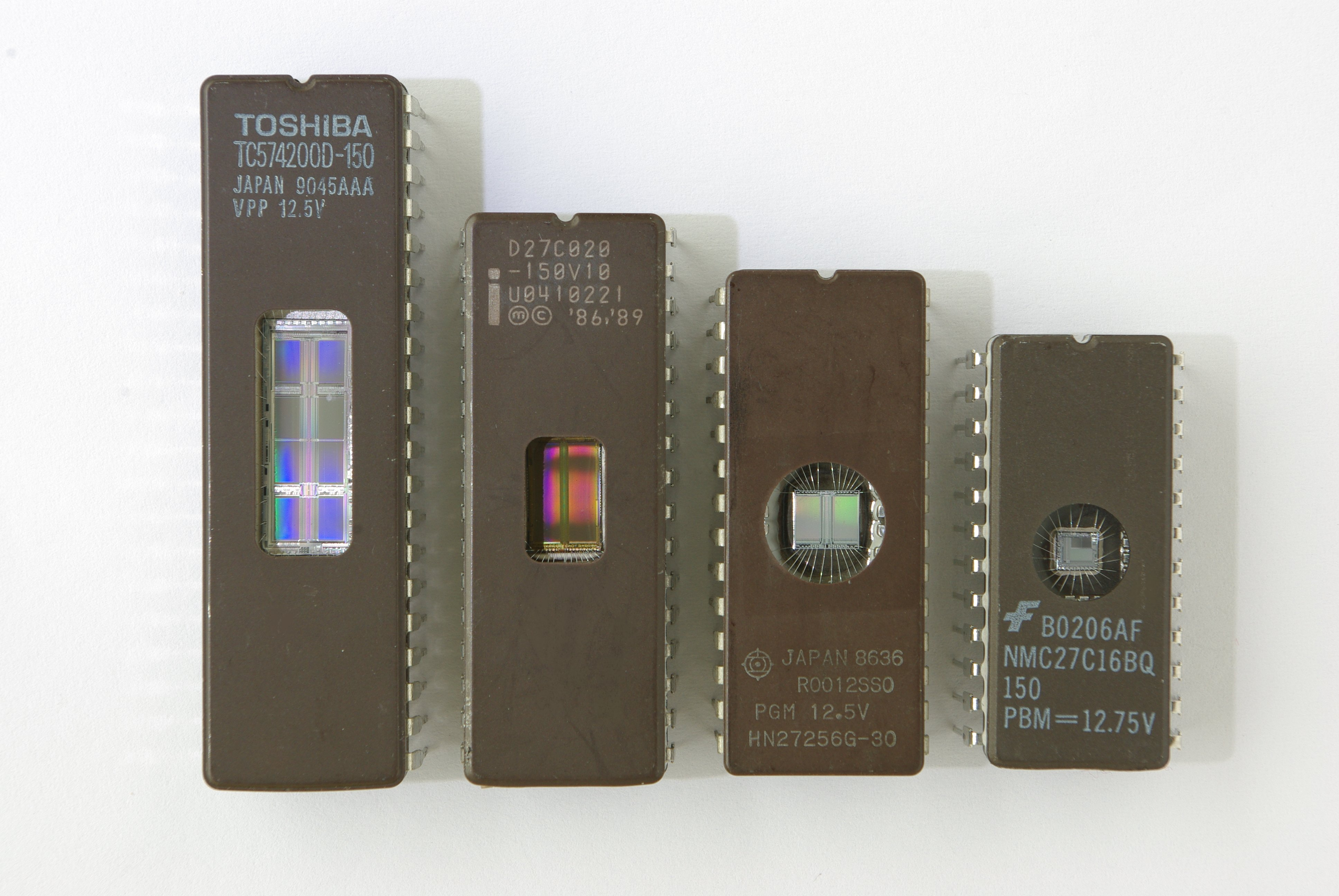 Vintage memory devices with a peep hole to show off their silicon beauty For those of you who were born in the 90s: The windows were there for erasing the data with ultraviolet light. Non-volatile memory that could be erased electronically (EEPROM, Flash) took over later.